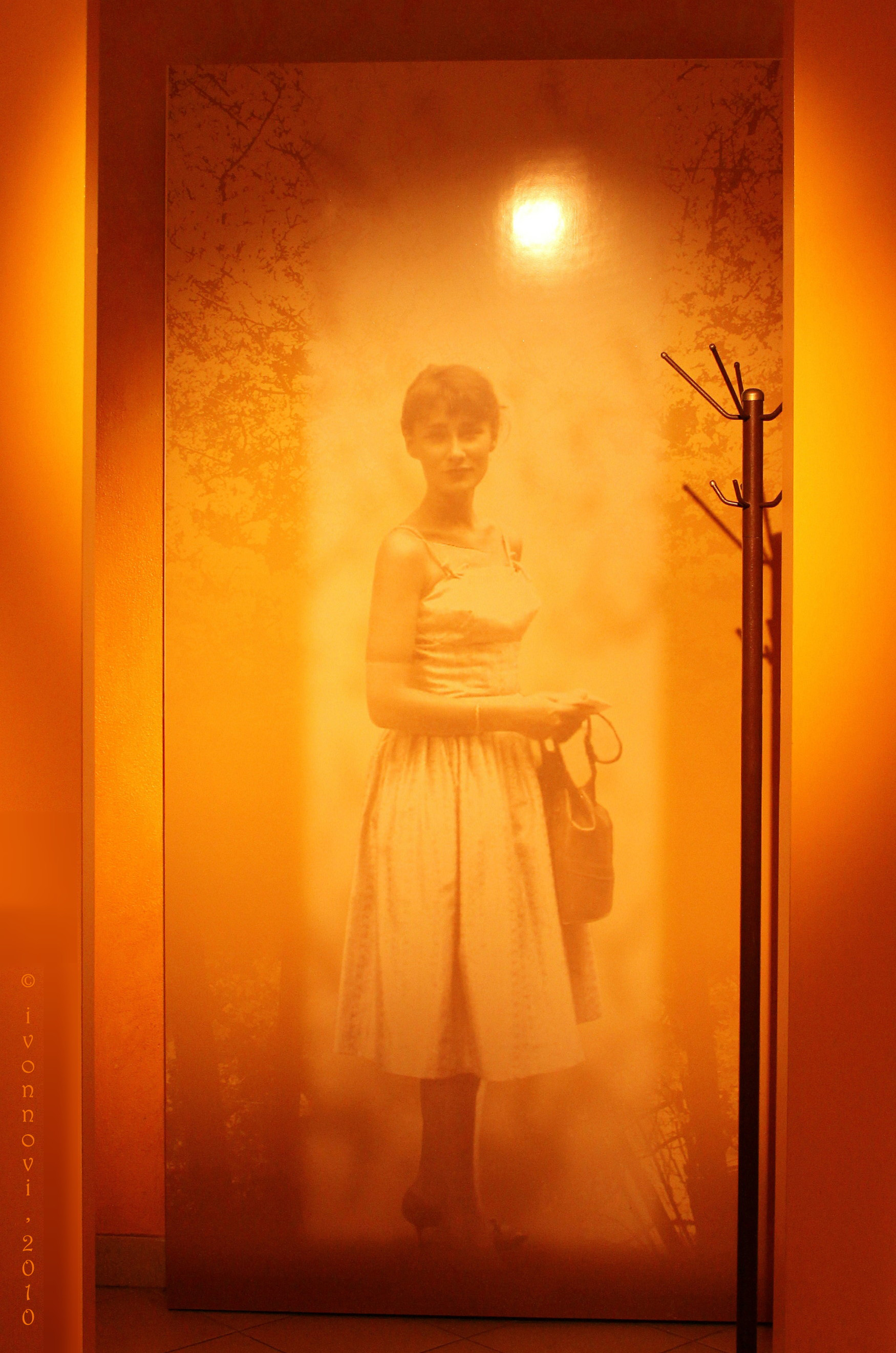 A picture of Polish poet Halina Poświatowska's at her Poetry House-Museum of Halina Poświatowska in Częstochowa.